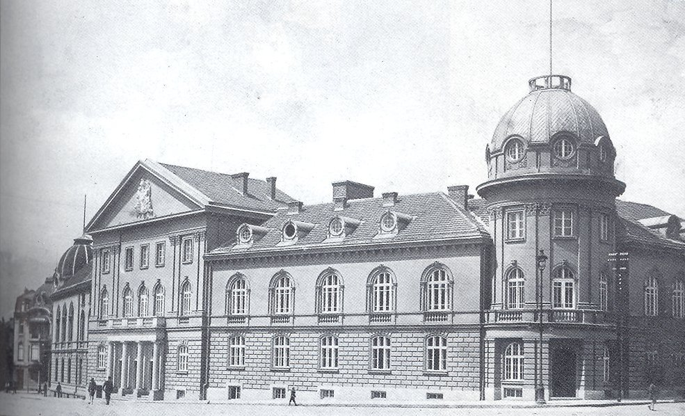 Bulgarian Academy of Sciences, Sofia, Bulgaria